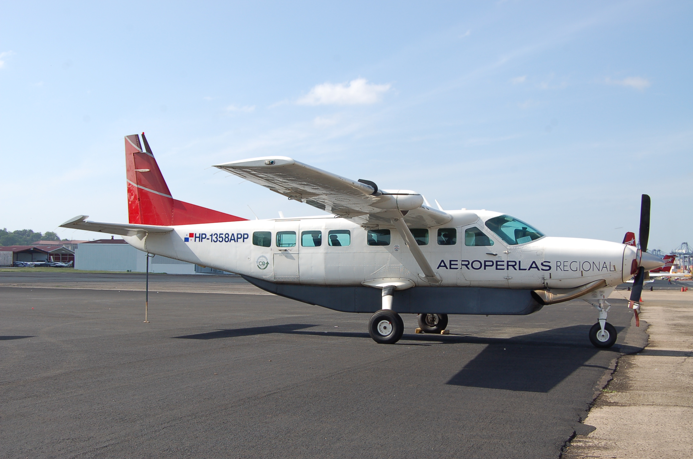 Cessna 208B of Aeroperlas at Panama City-Marcos A.Gelabert,Panama 08/03/11.